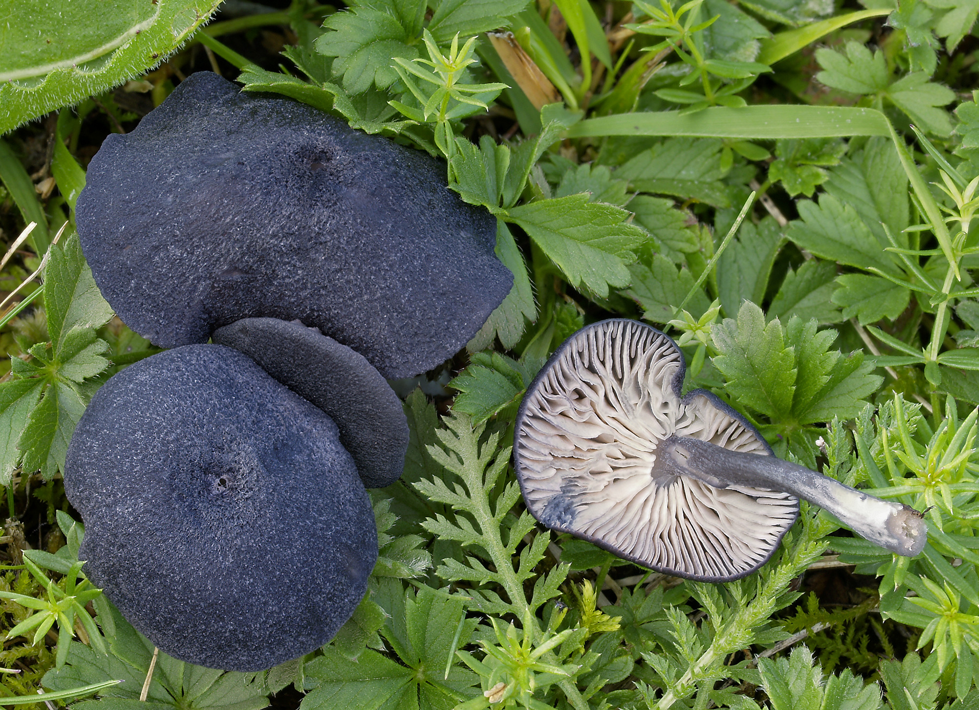 Entoloma serrulatum